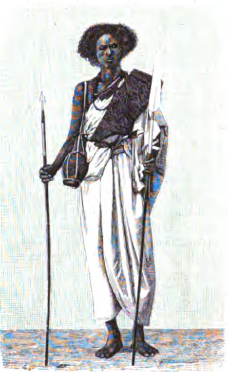 Somali nomad belonging to the Habr Awal Clan.